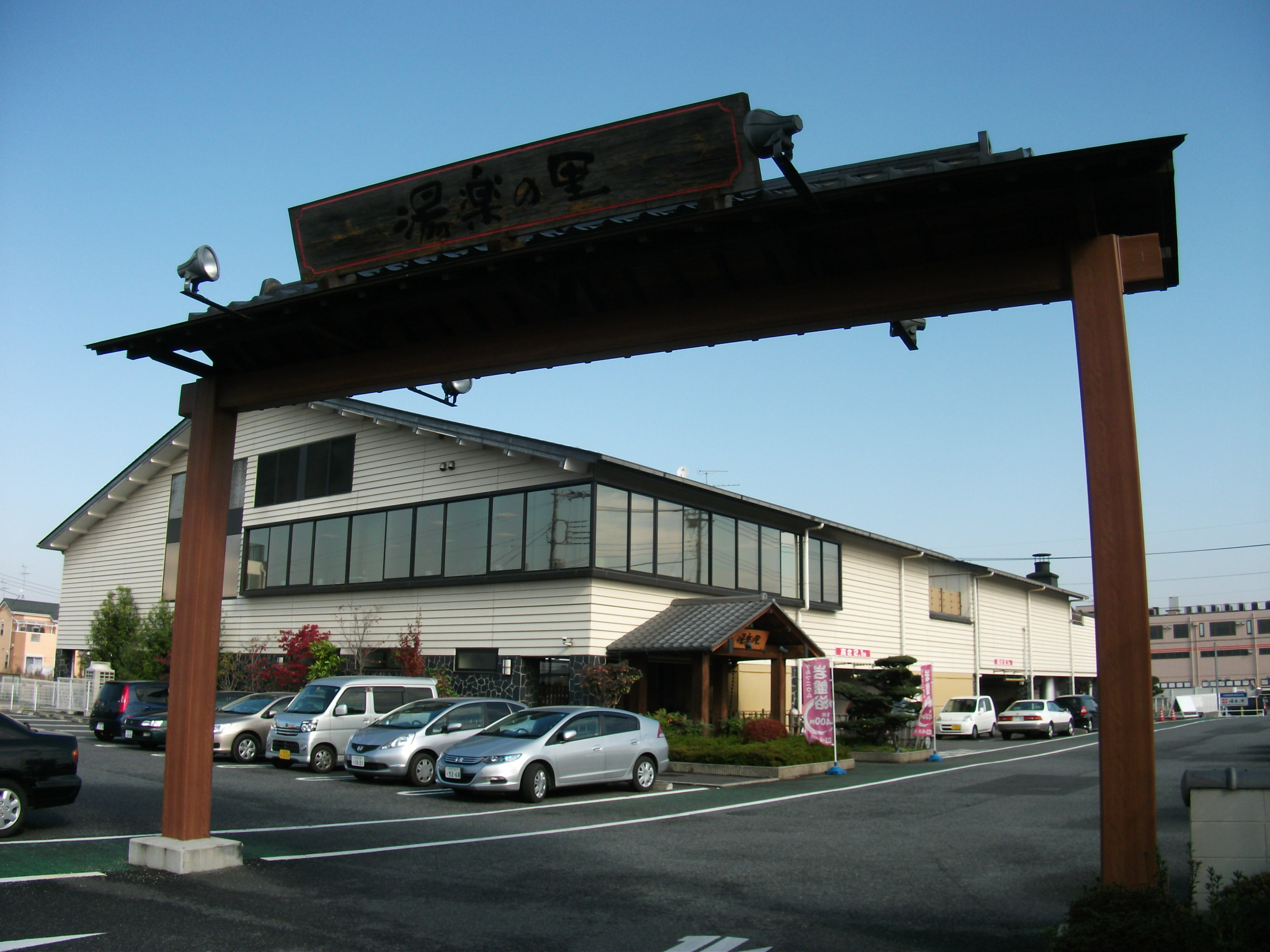 Super sento "Yura-no-sato Kawagoe branch" (Saitama, Japan)